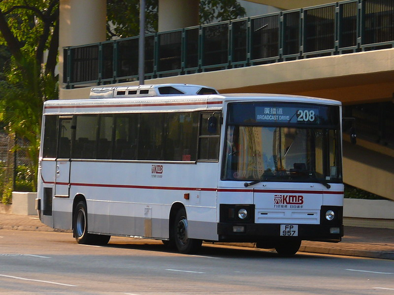 A Dart running on route 208 of KMB